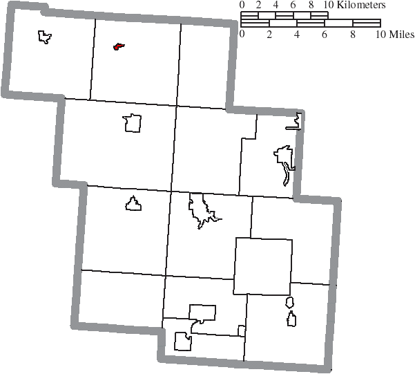 Map of the municipal and township boundaries of Perry County, Ohio, United States, as of the 2000 census, with the location of the village of Glenford highlighted. Township borders are shown only in unincorporated areas in order to differentiate incorporated and unincorporated areas more clearly.